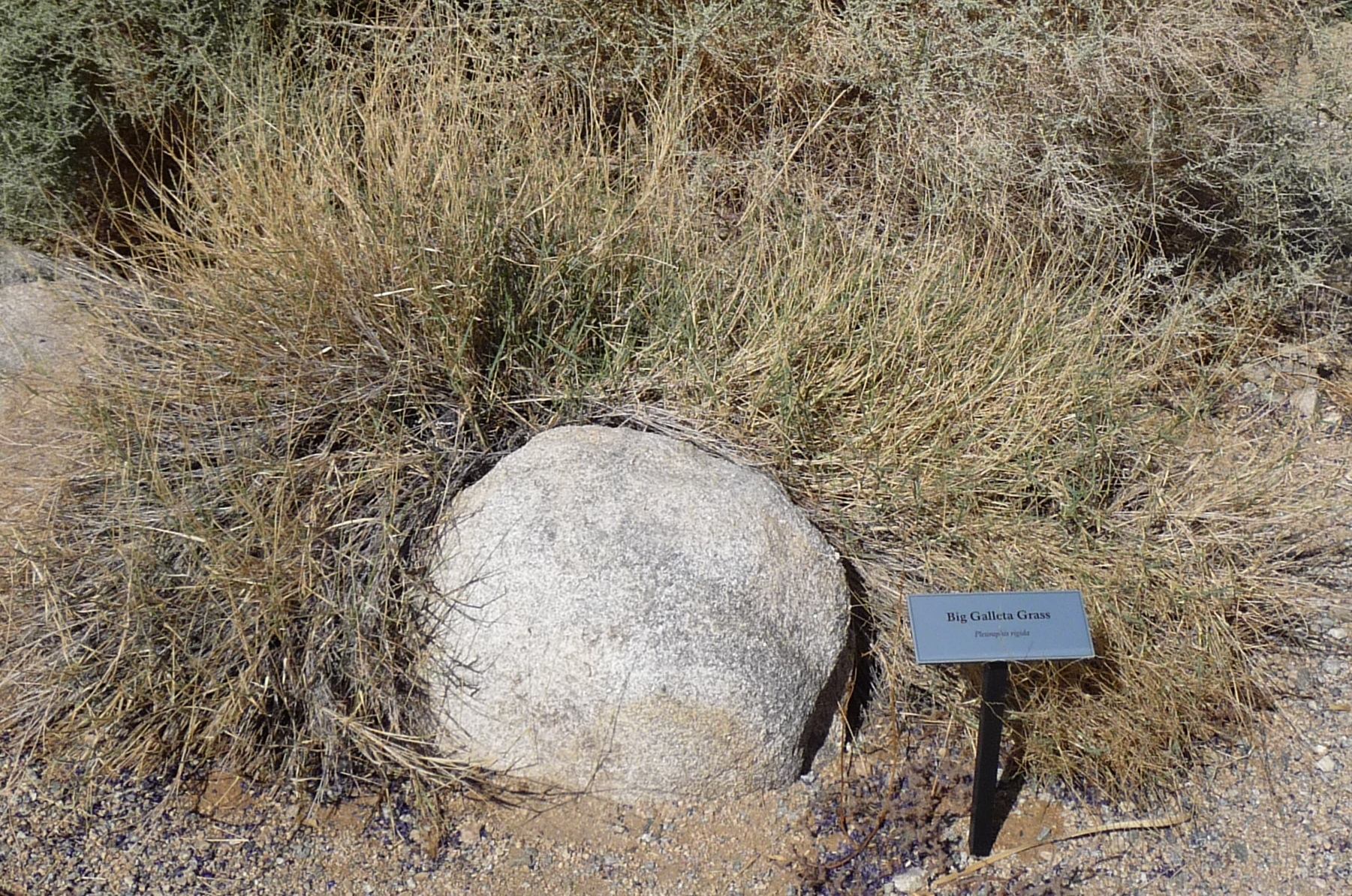 Joshua Tree National Park - Big Galleta Grass (Pleuraphis rigida)